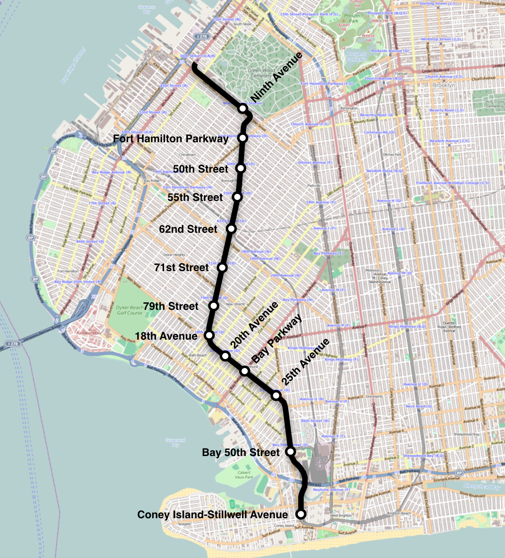 BMT West End Line map